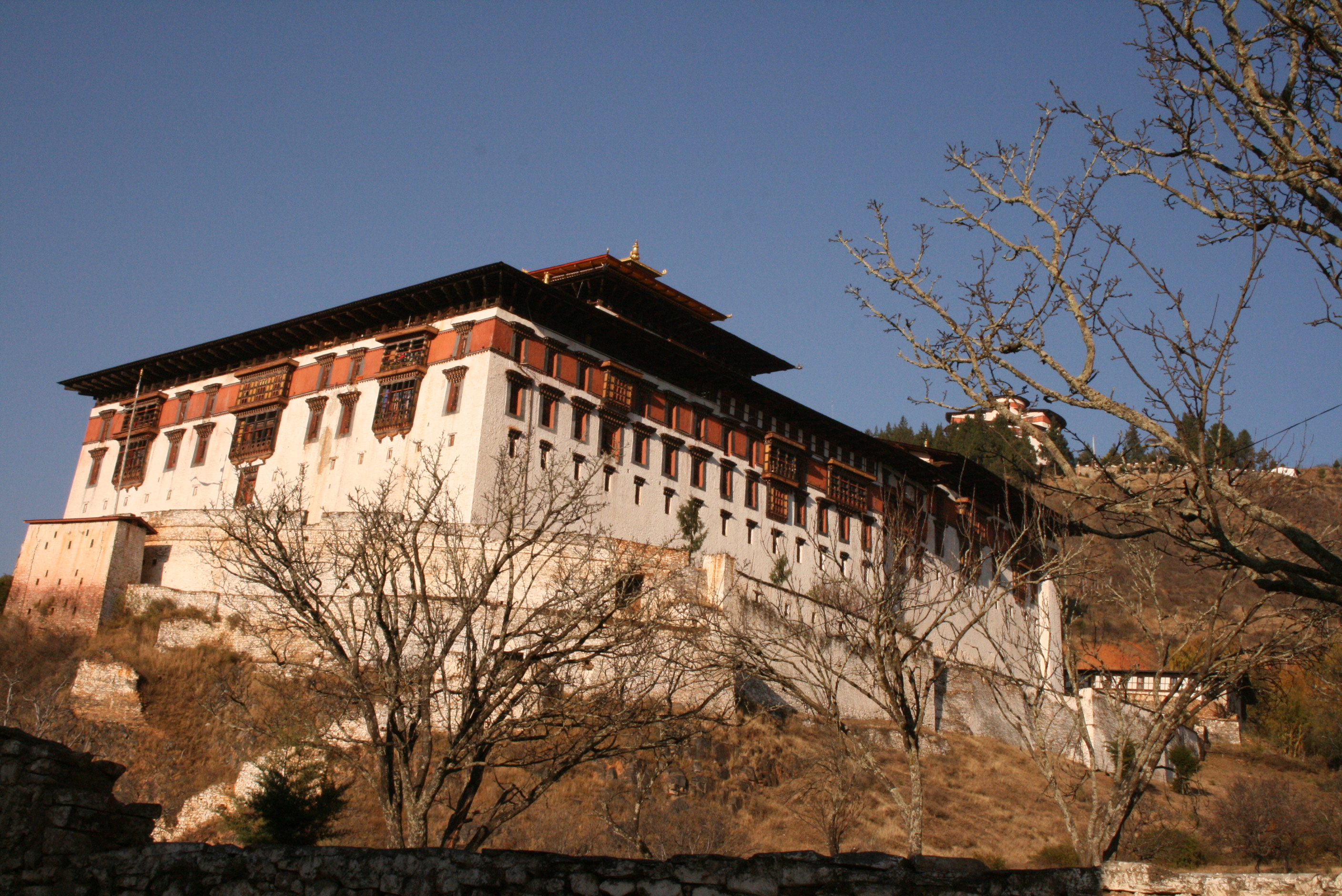 The dzong at Paro